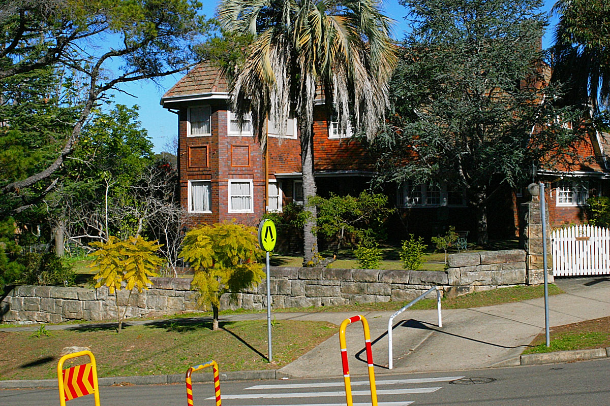 House opposite Cheltenham Station. 09July 2006.